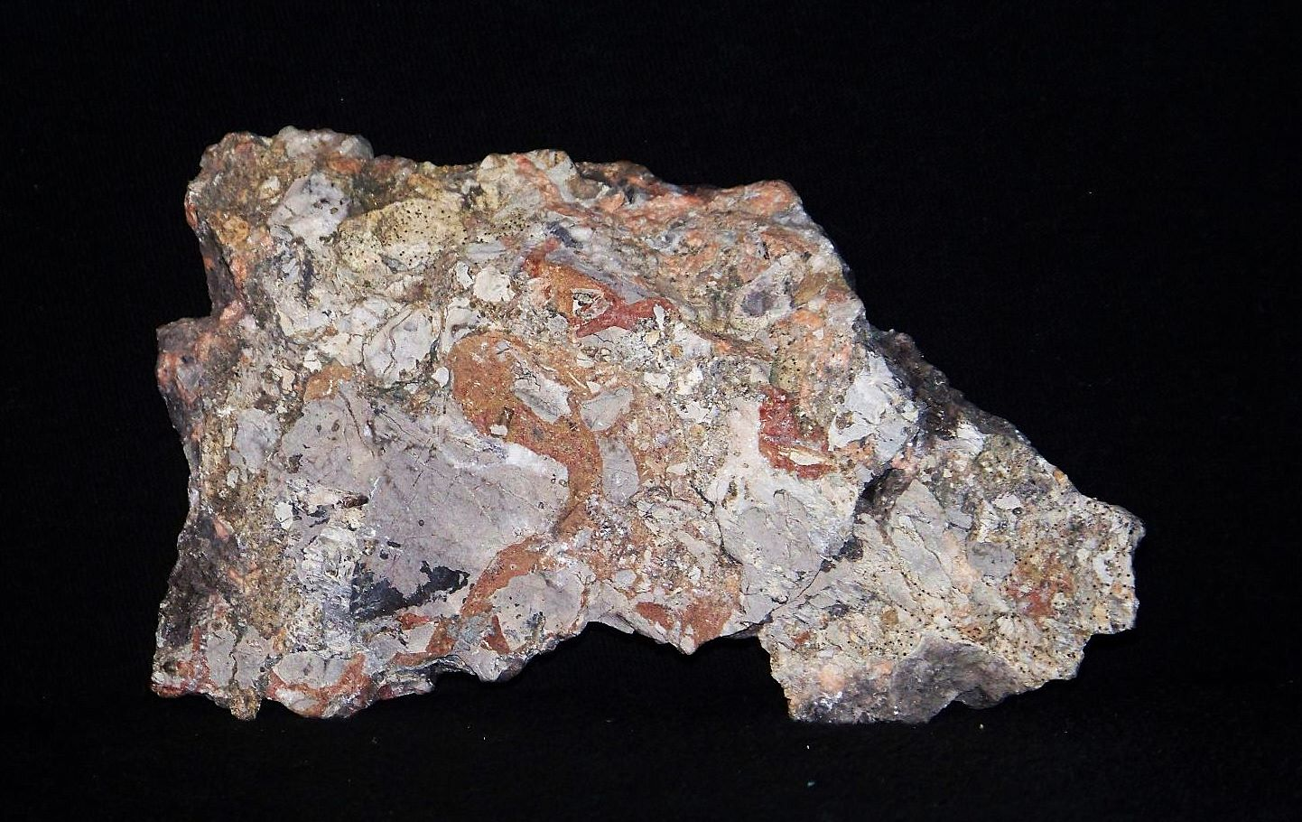 Tectonic breccia (limestone, with baryte cement), from Kielce - Ślichowice Nature Reserve (Ślichowice vel Śluchowice geological Nature Reserve of Jan Czarnocki memory), Holy Cross Mountains, Poland